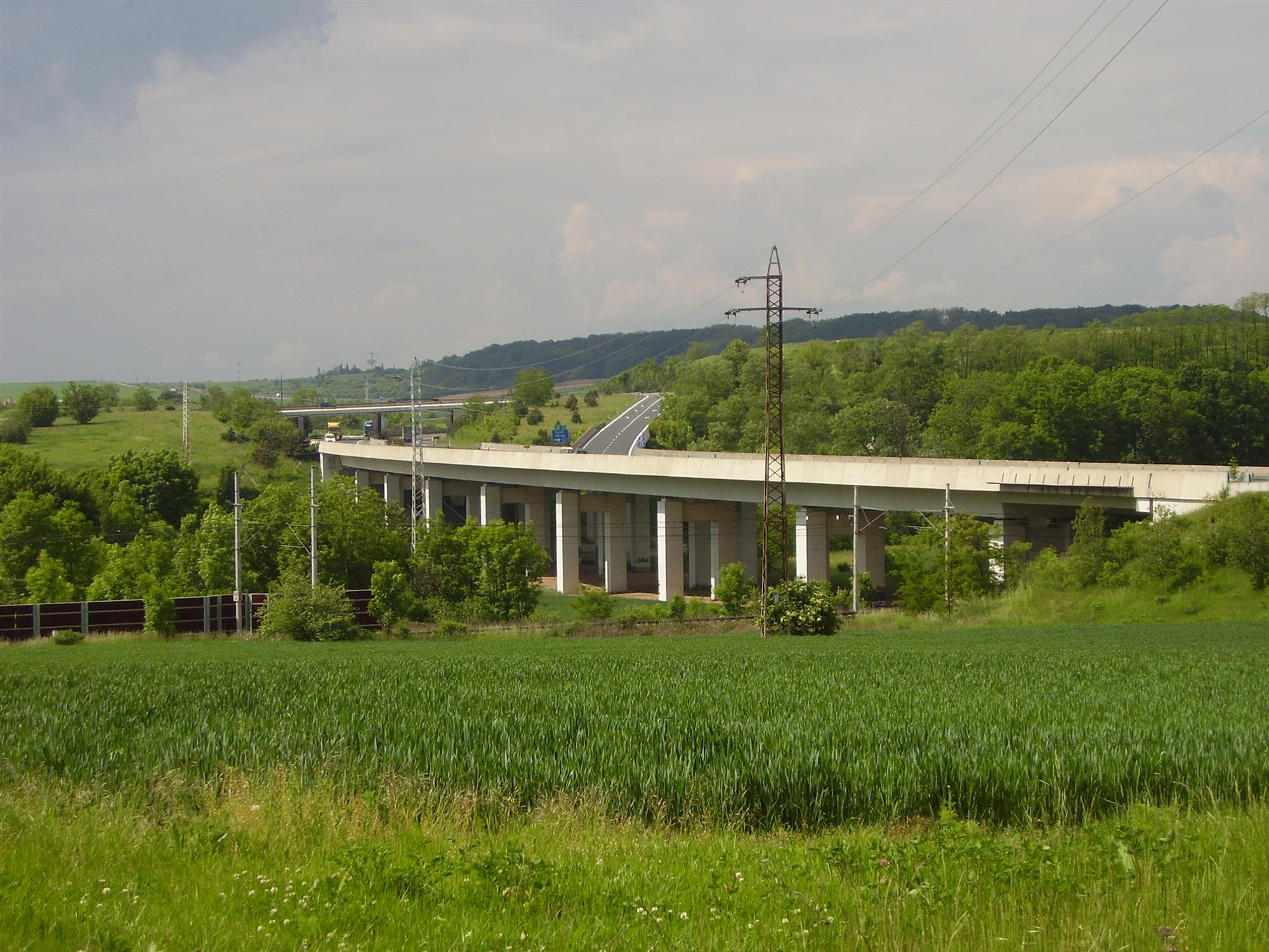 Highway bridge on D8 near Vepřek